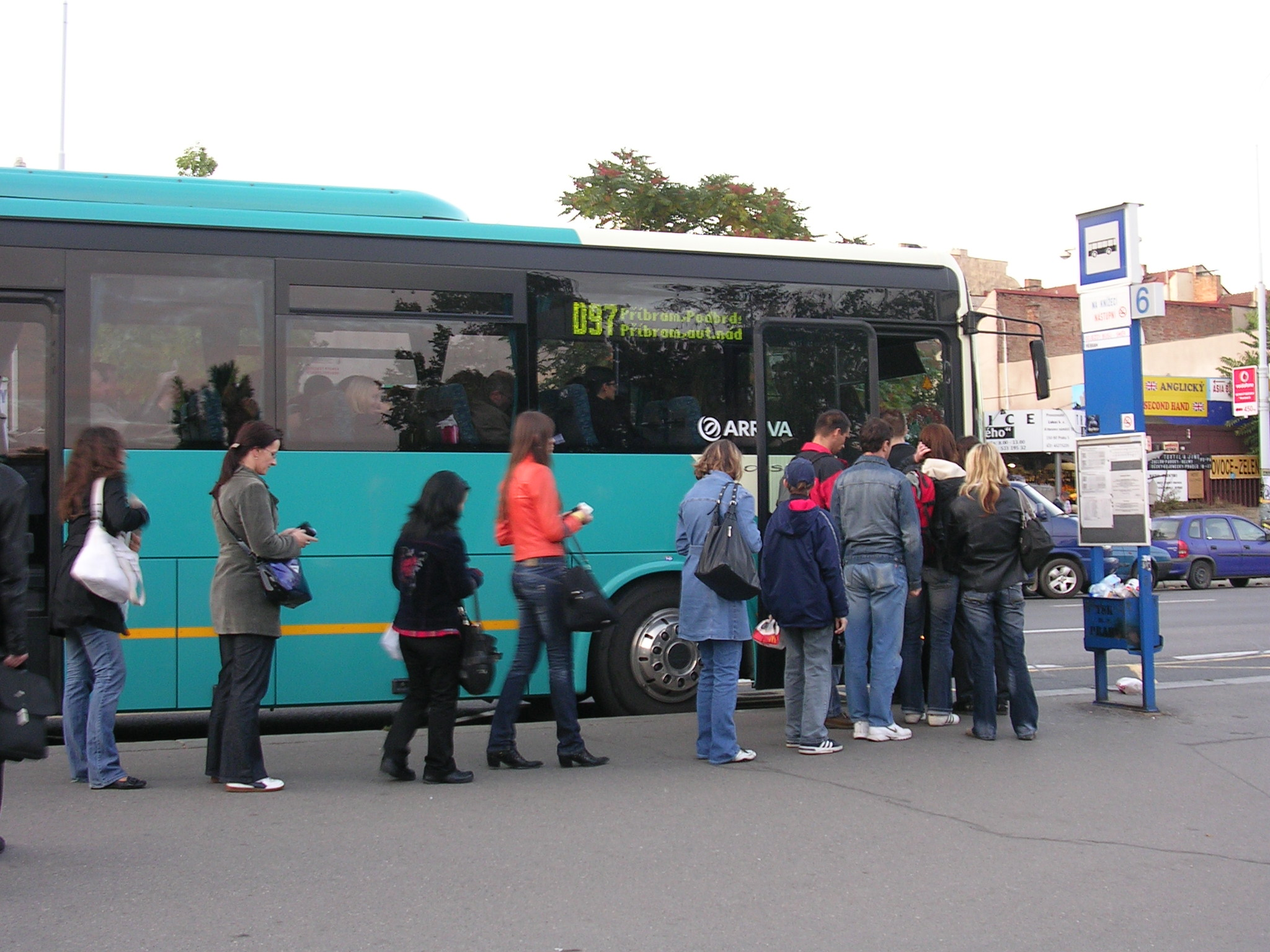 Smíchov, Prague, the Czech Republic. Bus of Bosák Bus Ltd. (Arriva Group)